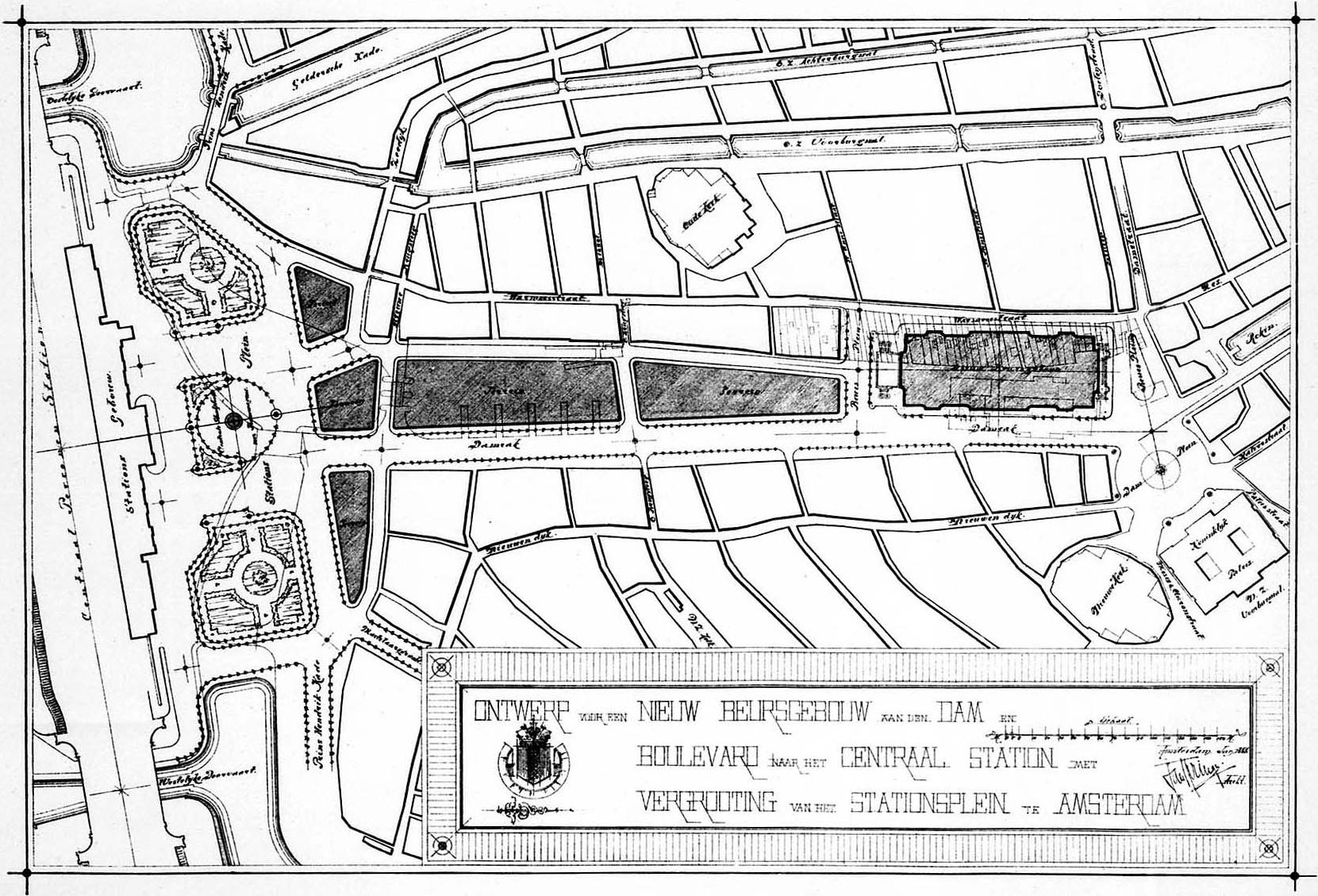 Design for a new stock exchange on Dam Square and a boulevard to Centraal Station with enlargement of the Stationsplein in Amsterdam.